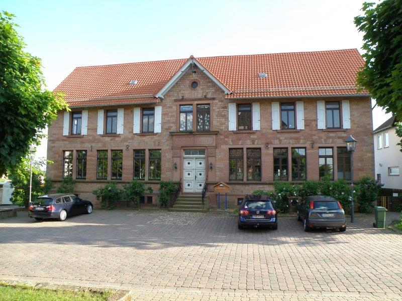 Altes Schulhaus in Würzberg